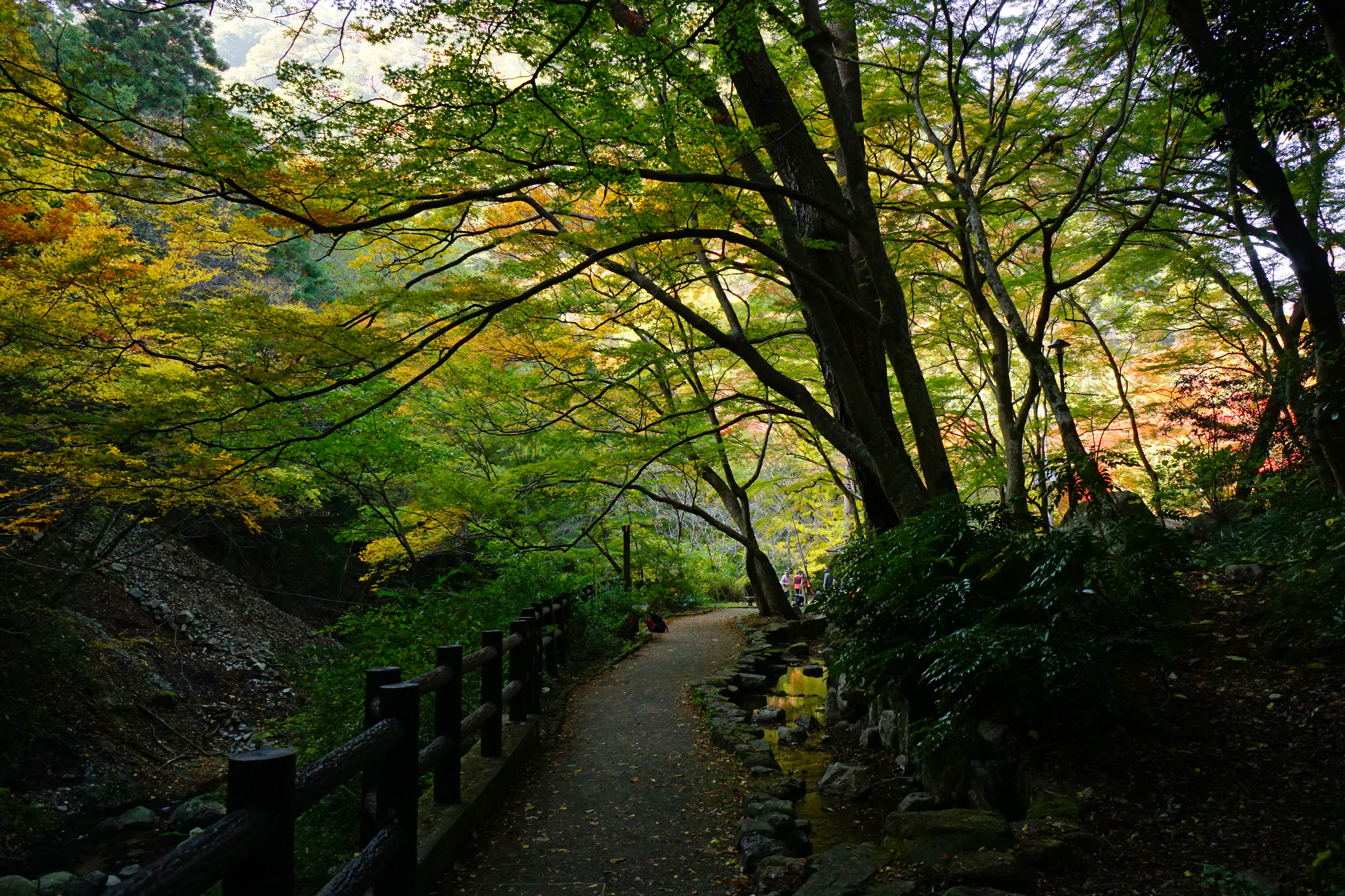 Tudumi-ga-taki Park in Arima onsen, Kobe, Hyogo prefecture, Japan